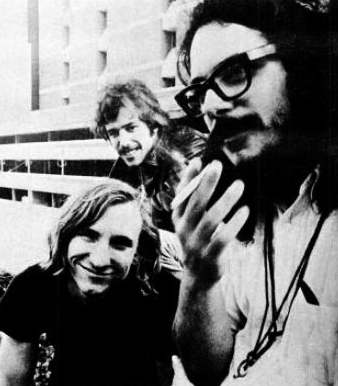 Trade ad for ABC / Dunhill Records featuring James Gang. To better adapt it to his respective Wikipedia article, the ad was cropped and cleaned in a graphics editing program. The original can be viewed at the source below.